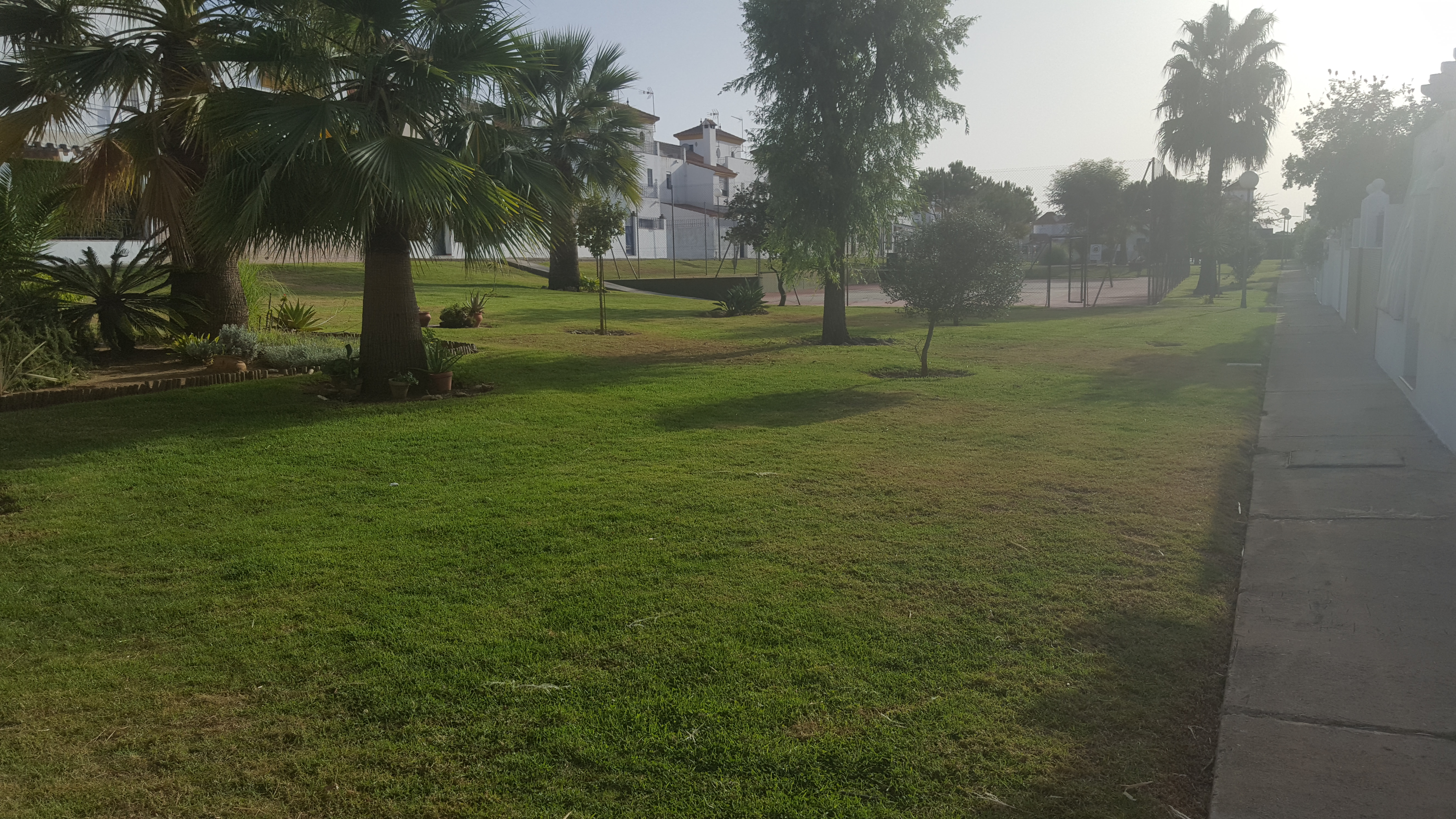 Entrepinos Community, the biggest of El Portil and Nuevo Portil